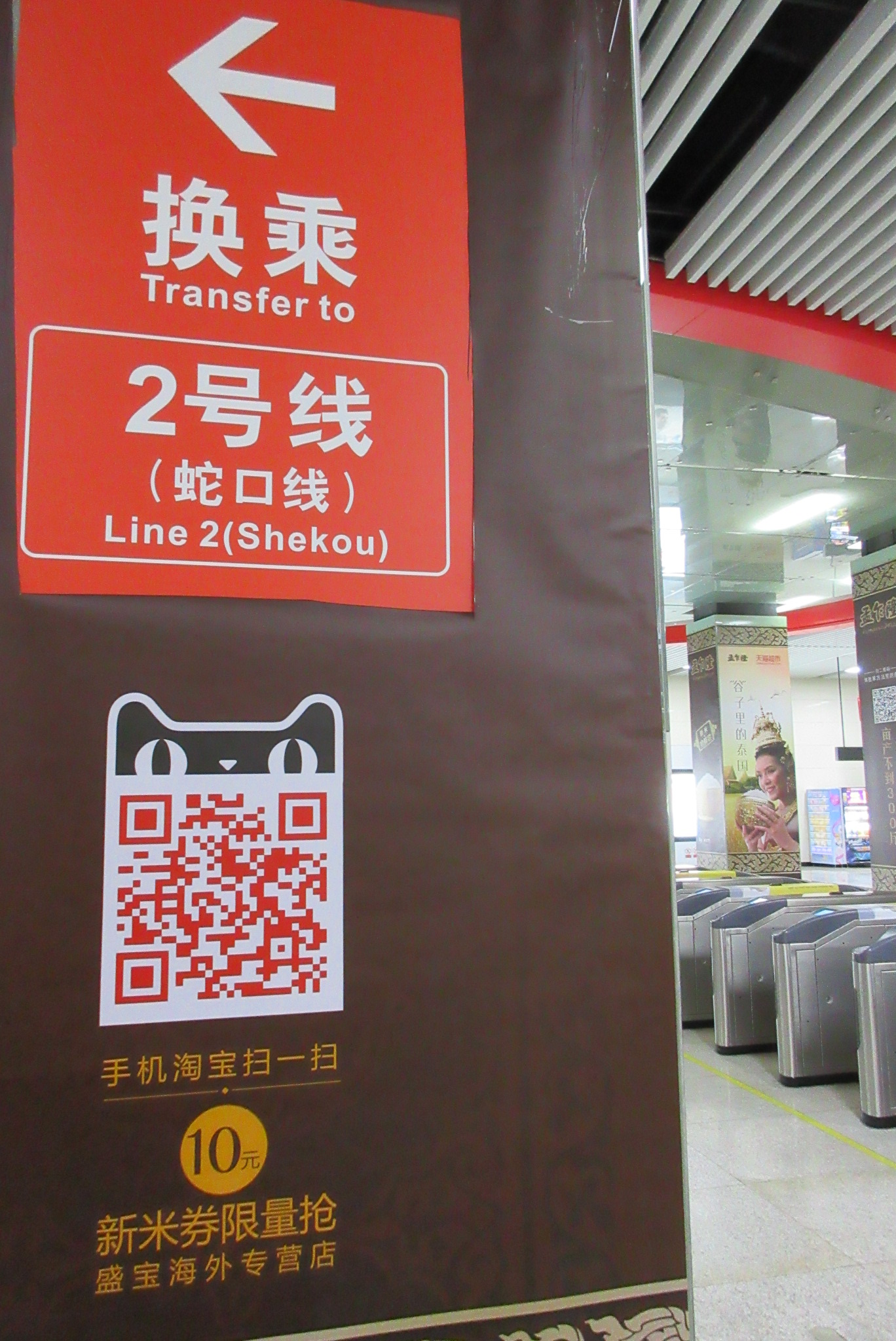 SZ 深圳 Shenzhen 福田區 Futian 市民中心站 Metro Civic Center station sign in January 2017